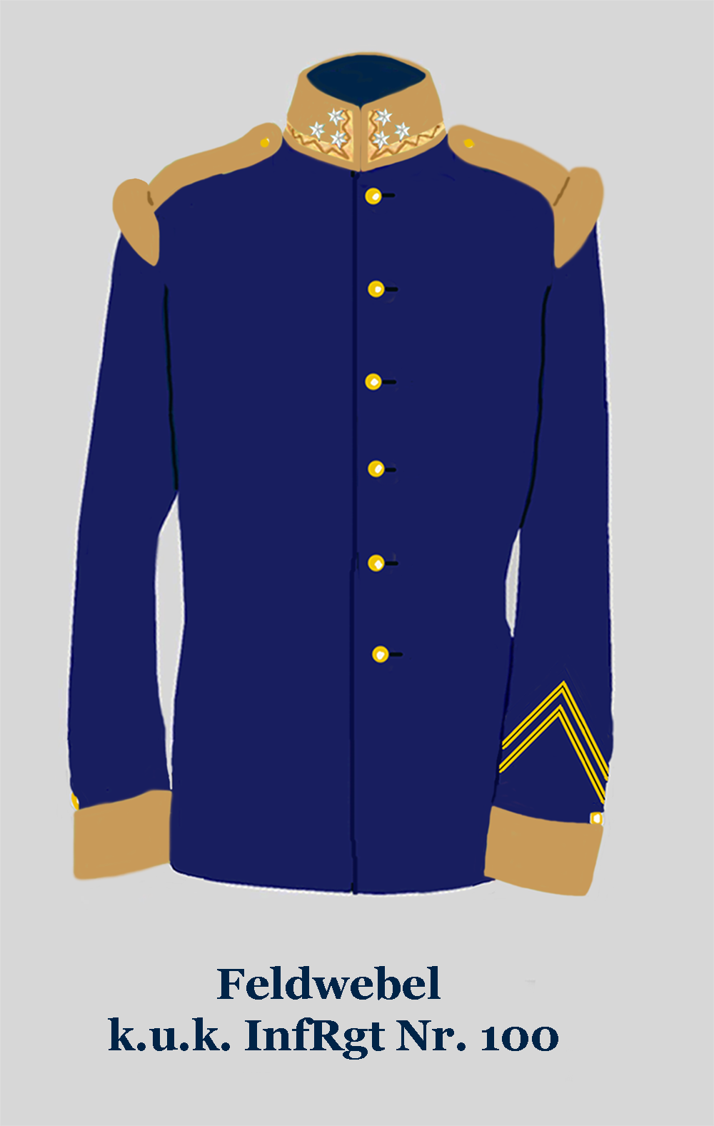 Master-Sergeant (German style tunic, light brown regimental identification color an yellow buttons) of the Austria-Hungarian Army (More than 6 years in service)